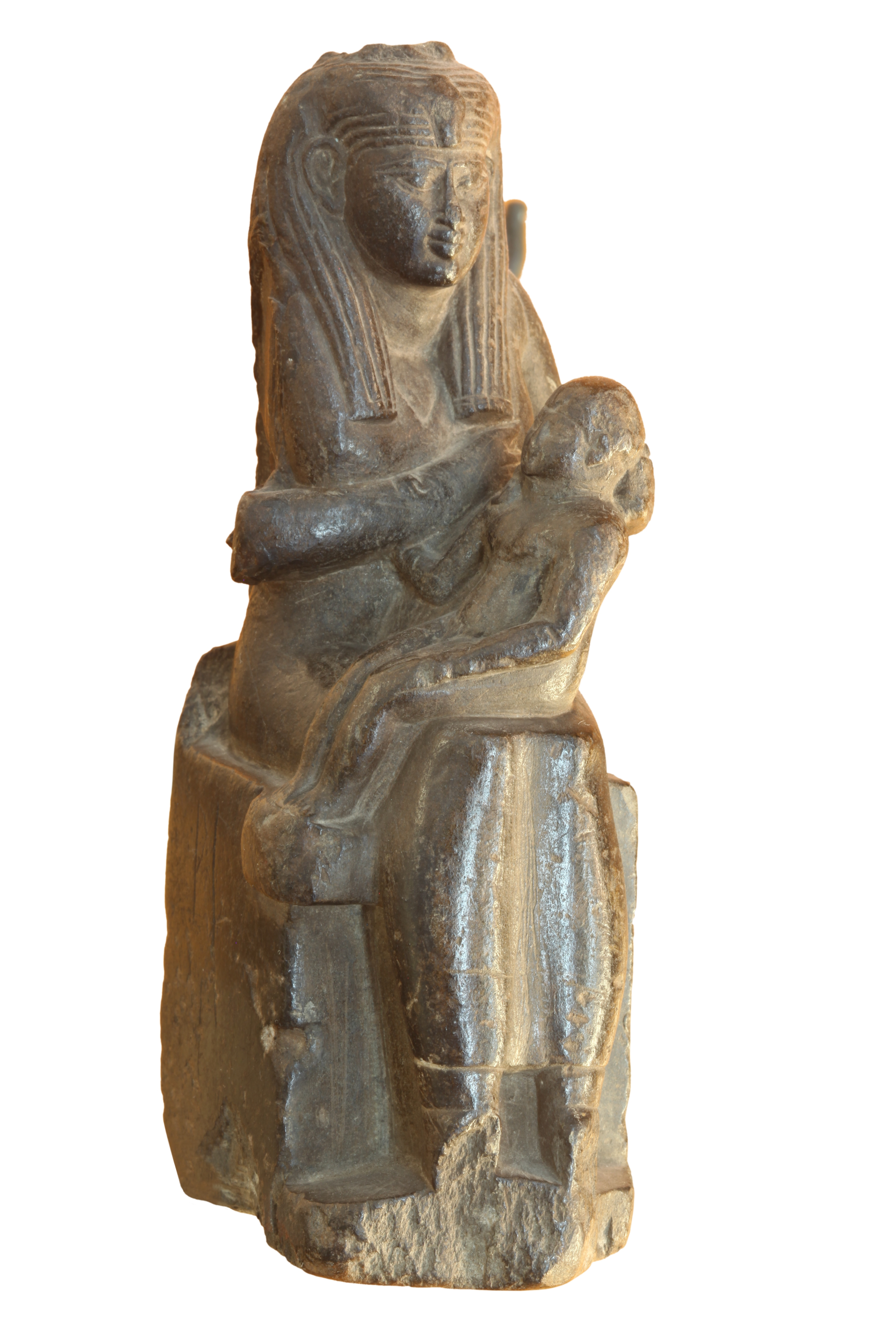 Isis-Hathor giving milk to Osiris